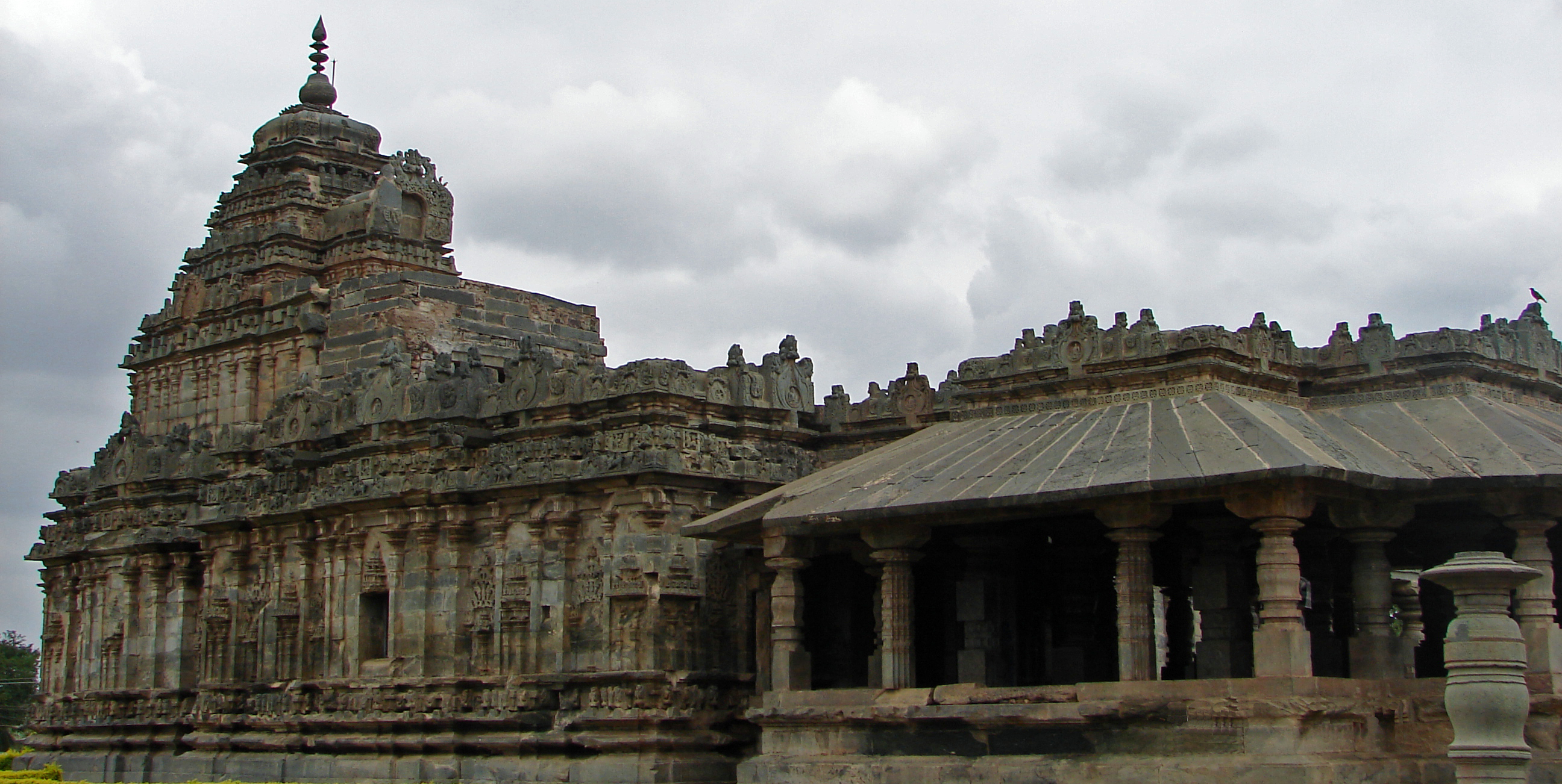 Photograph was taken by self (Dinesh Kannambadi) at Brahma Jainalaya temple in Lakkundi, Gadag district, Karnataka state, India in July 2007